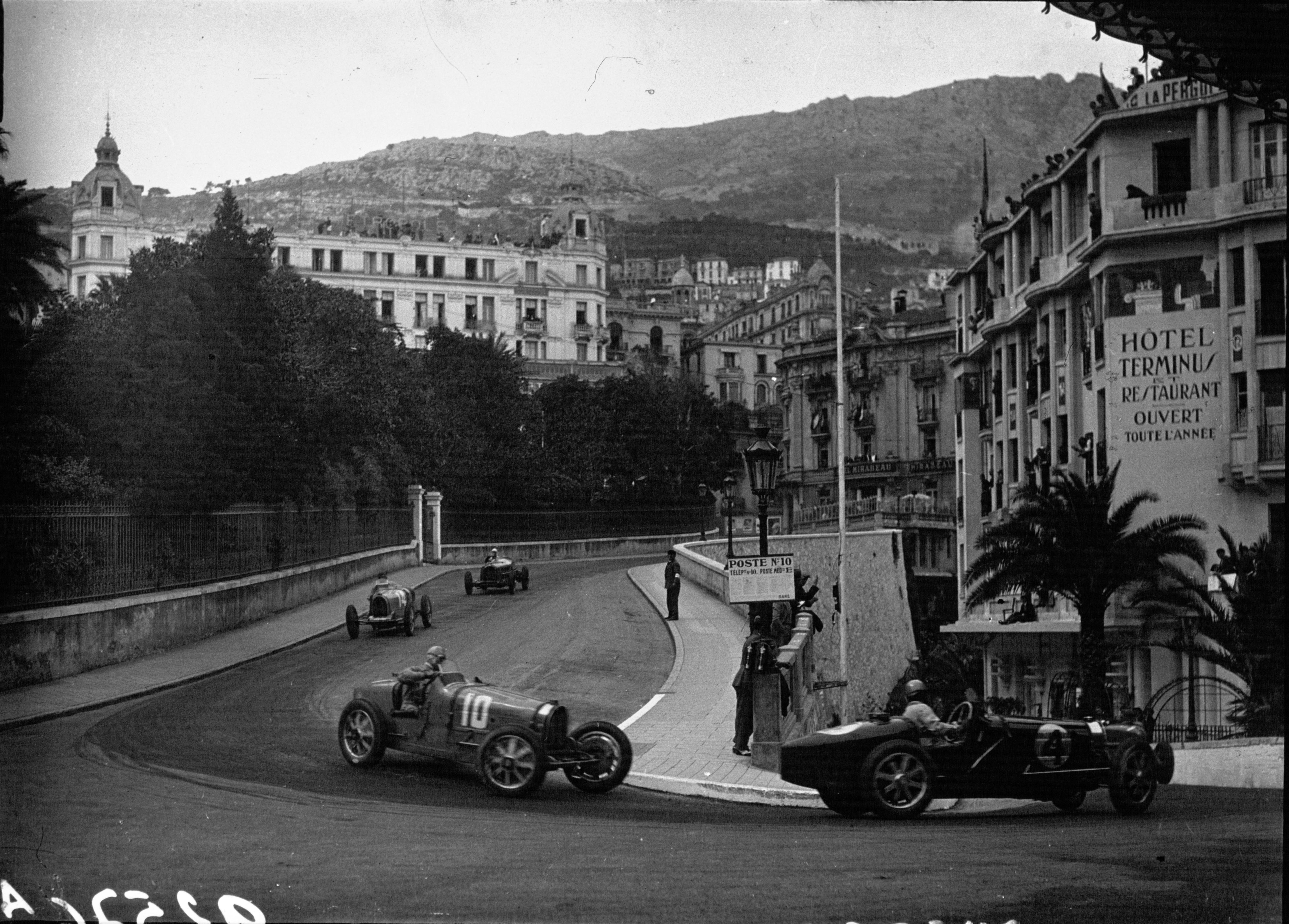 Passing at the 1932 Monaco Grand Prix